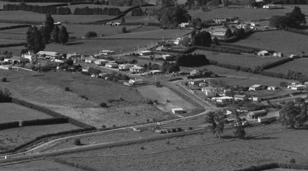 Whites Aviation Ltd -Photographs. Ref- WA-61705-G. Alexander Turnbull Library, Wellington -records-23182189